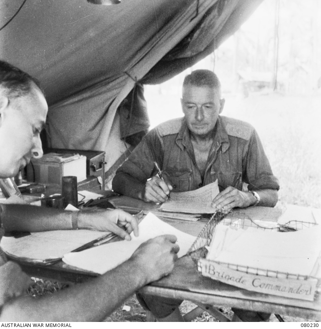 Alexishafen, New Guinea, July 1944. NX110380 Brigadier Claude Ewen Cameron, MC and Bar dictating instructions at HQ Australian 8th Infantry Brigade